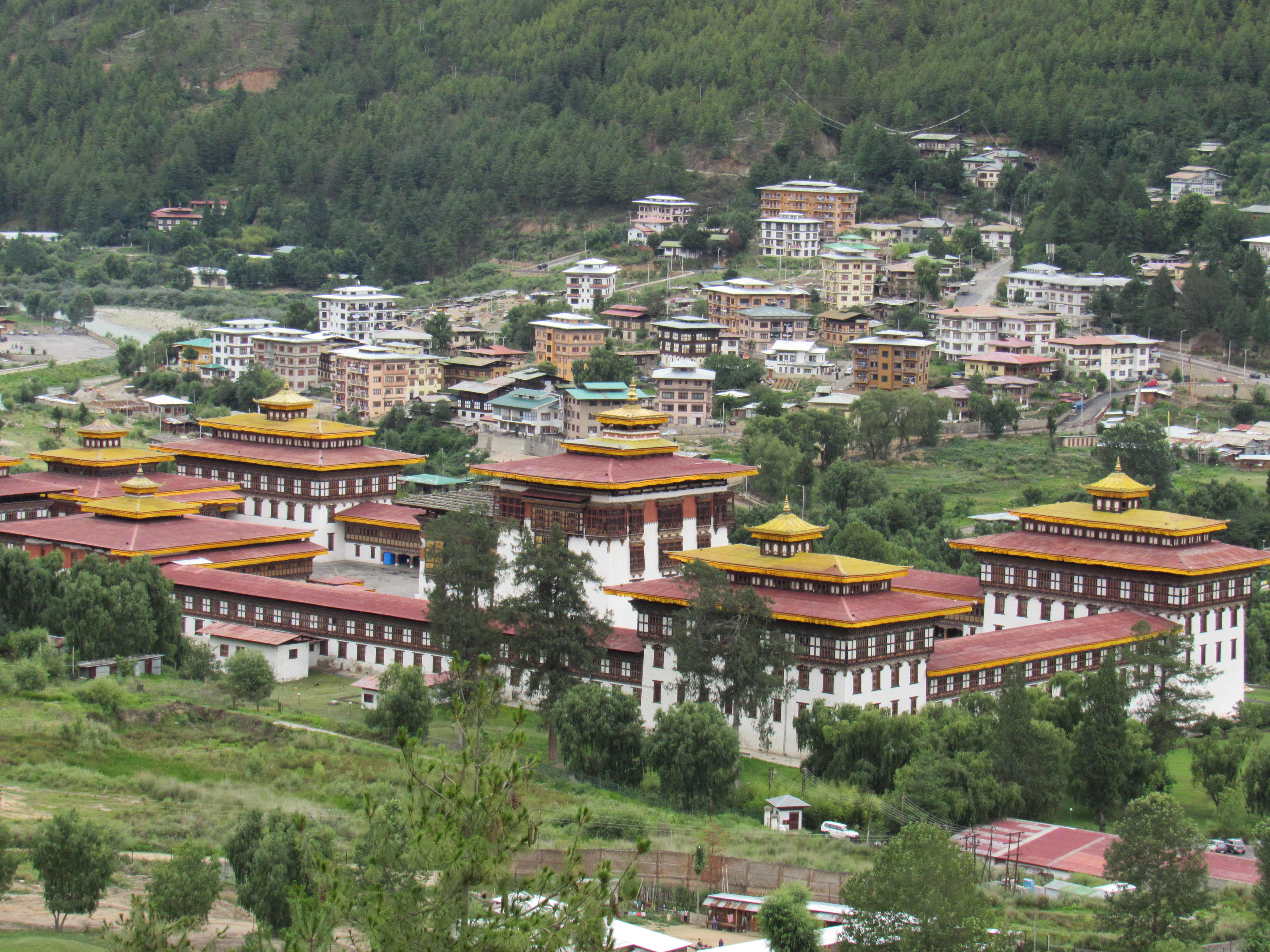 Royal Palace in Thimphu city, view from mountain, July 2016